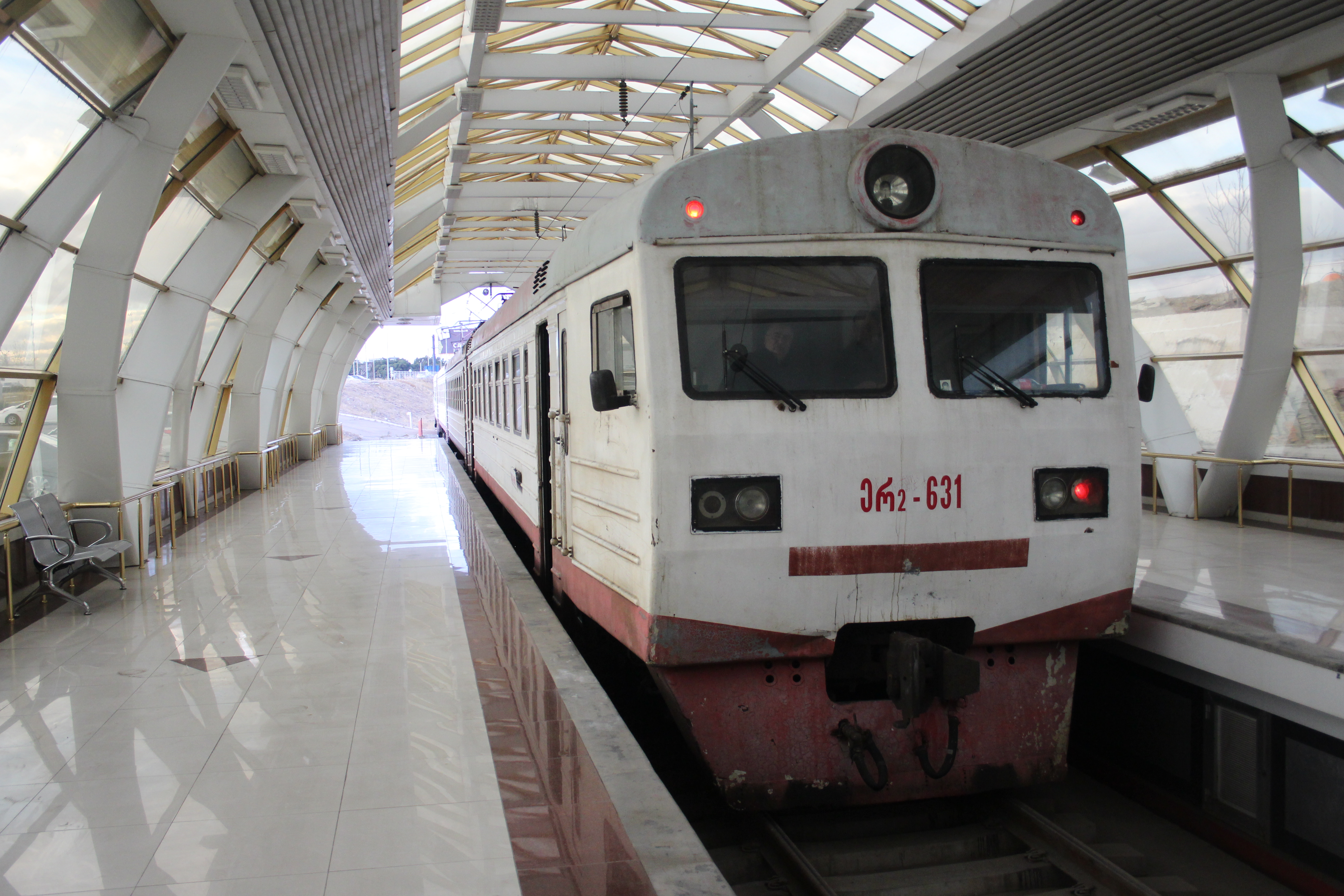 A Georgian Railways ER2 class at Tbilisi Airport station, after terminating from one of the two daily trains. This unit is ER2-631, after arriving on the 16:55 (Tbilisi Central) - 17:30 (Airport) service.